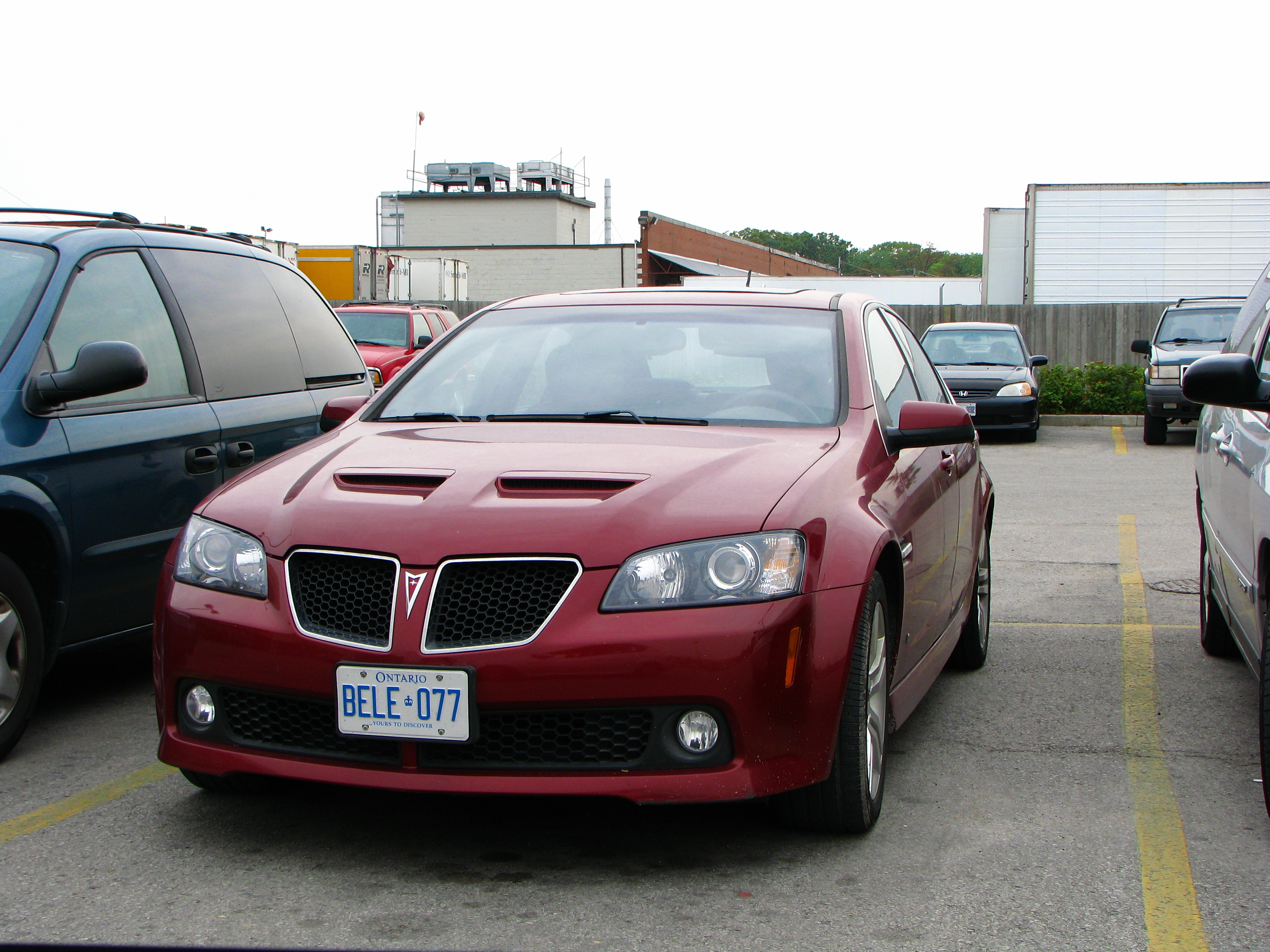 Surrounded by a pair of Dodge Caravans.